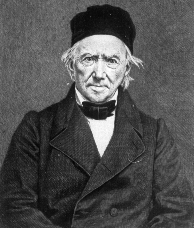 Christian Ludwig Gerling (1788–1864), German mathematician, astronomer and physicist.